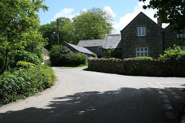 Stennack. Stennack is a hamlet in a wooded valley on the western edge of Troon.